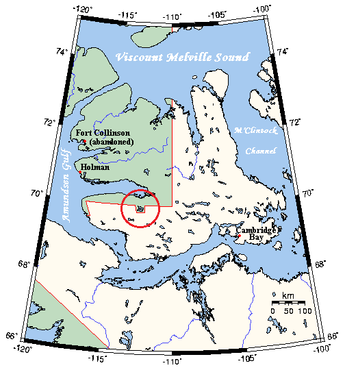 Location of Parker's Notch on Victoria Island, Canada